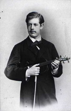 Axel Wilhelm Gade (1860-1921), Danish composer, violonist, and conductor